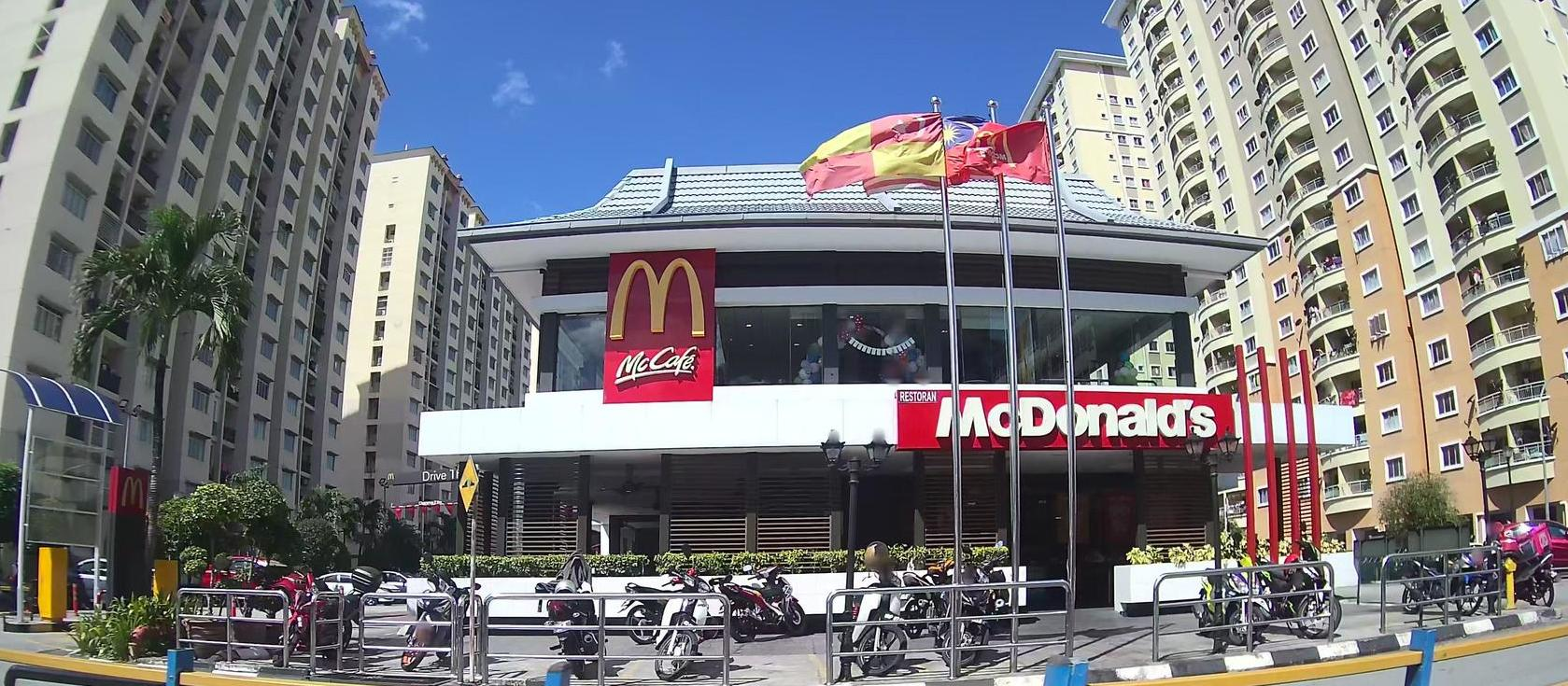 McDonald's Pandan Mewah DT